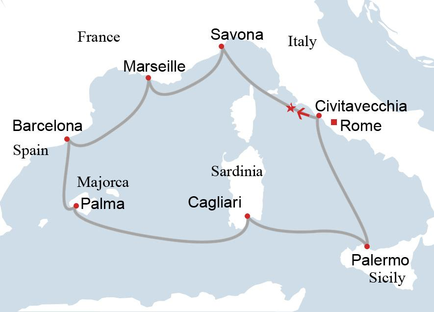 Route of Costa Concordia at wrecking based on The Telegraph